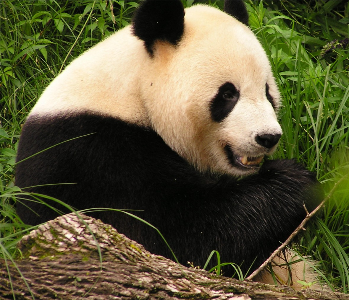 Giant panda